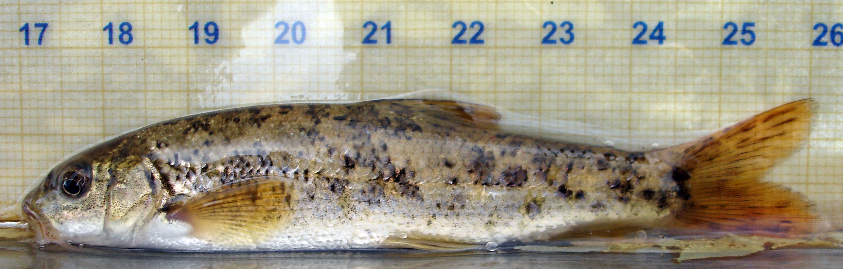 Juvenile of Red-tailed Barbel (Barbus haasi) in river Trueba. Espinosa de los Monteros (Burgos, Spain)